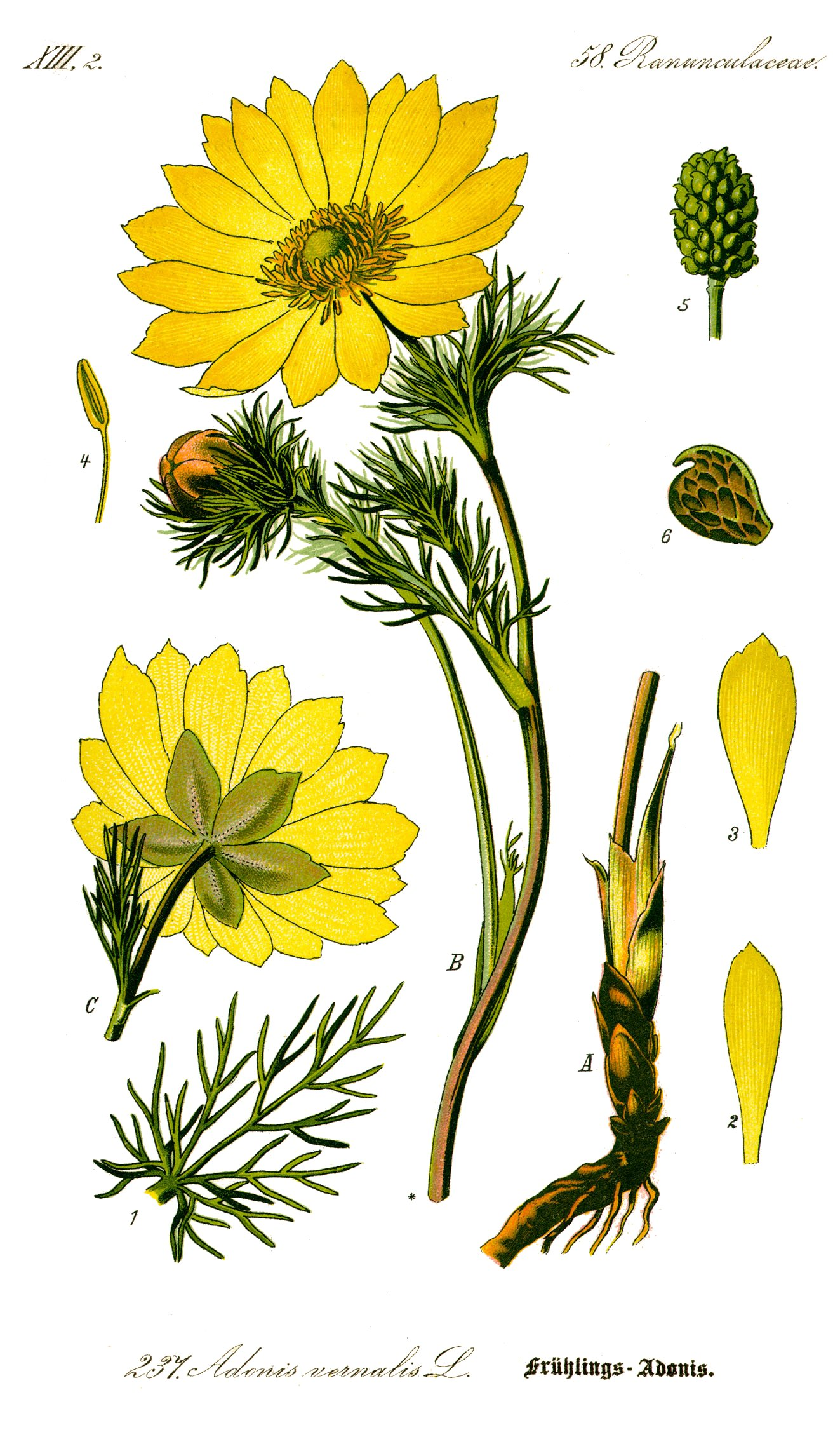 Clean version of Image:Illustration_Adonis_vernalis0.jpg Name Adonis vernalis Family Ranunculaceae